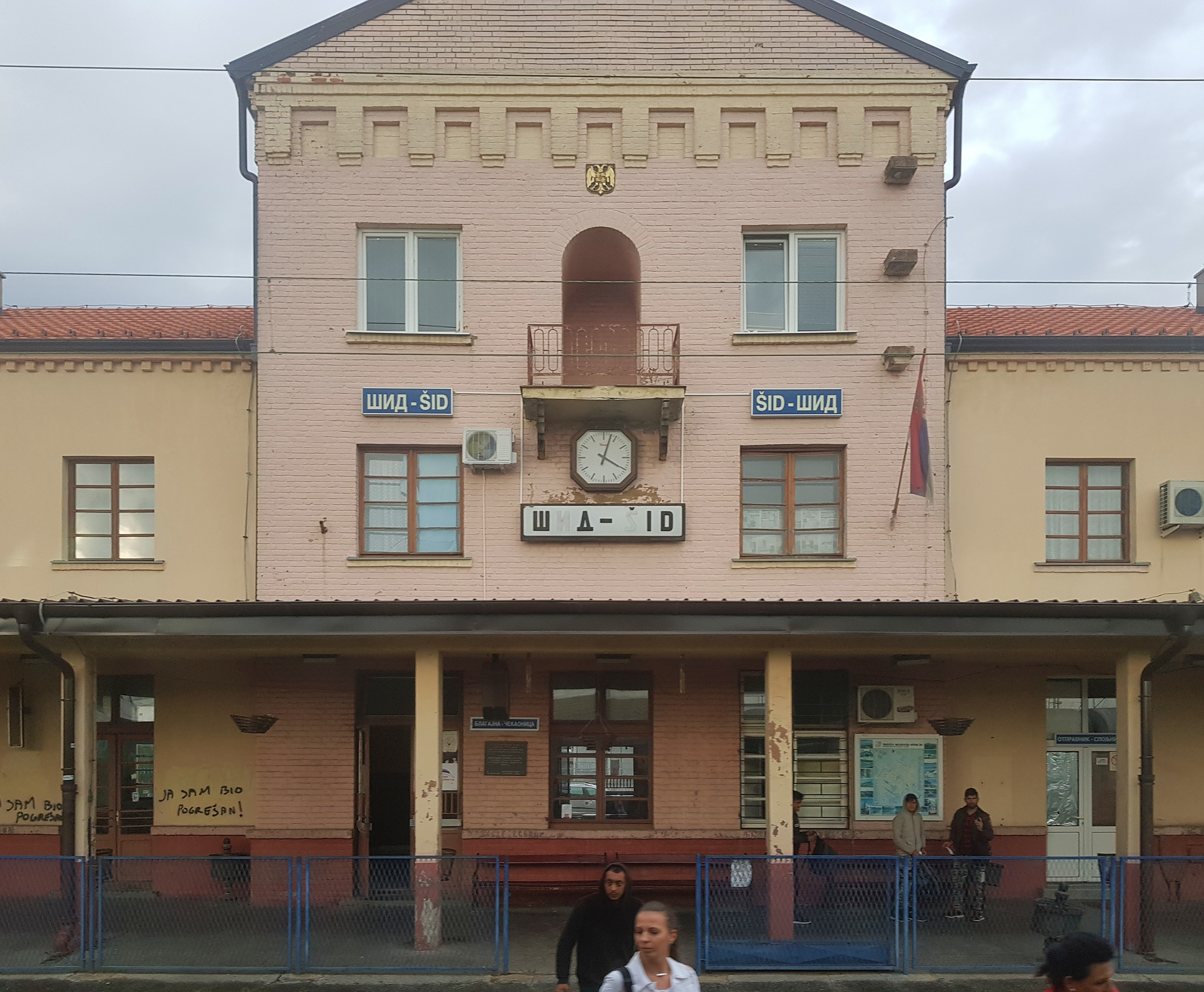 Šid train station